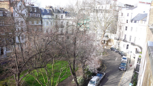 Brompton Square, London SW3 View of the crescent to the north end of Brompton Square as seen from the east side of the square.